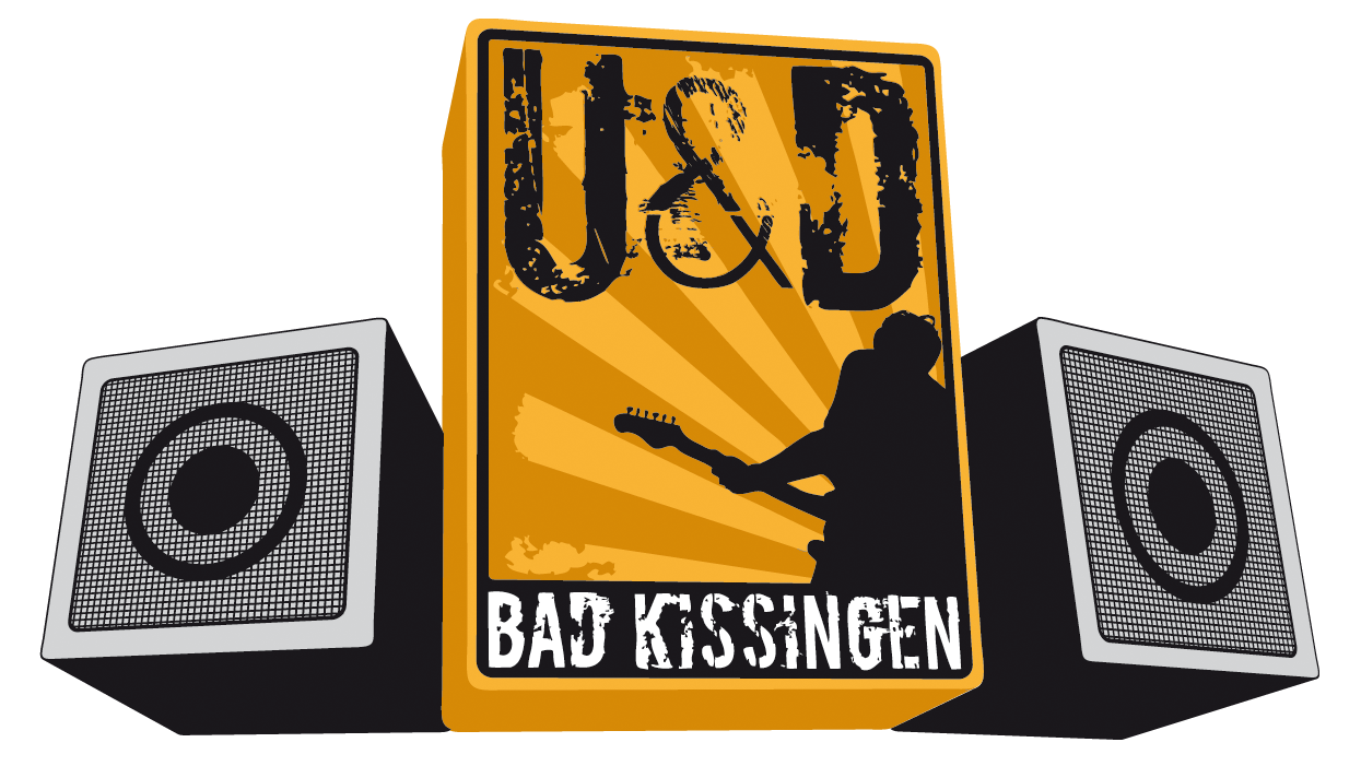 emblem of "U&D Bad Kissingen"